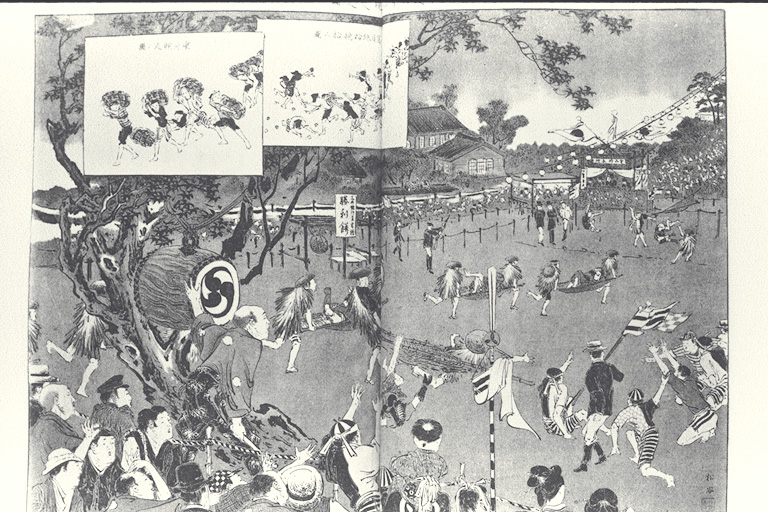 Athletic meeting at Keio gijuku, 26 May, 1894 (Meiji 27). With insets illustrating specific games. Published as "Keiō gijuku undōkai no zu" in Fūzoku gahō magazine (ja), no. 74, published by Tōyōdō, Tokyo, 1894.